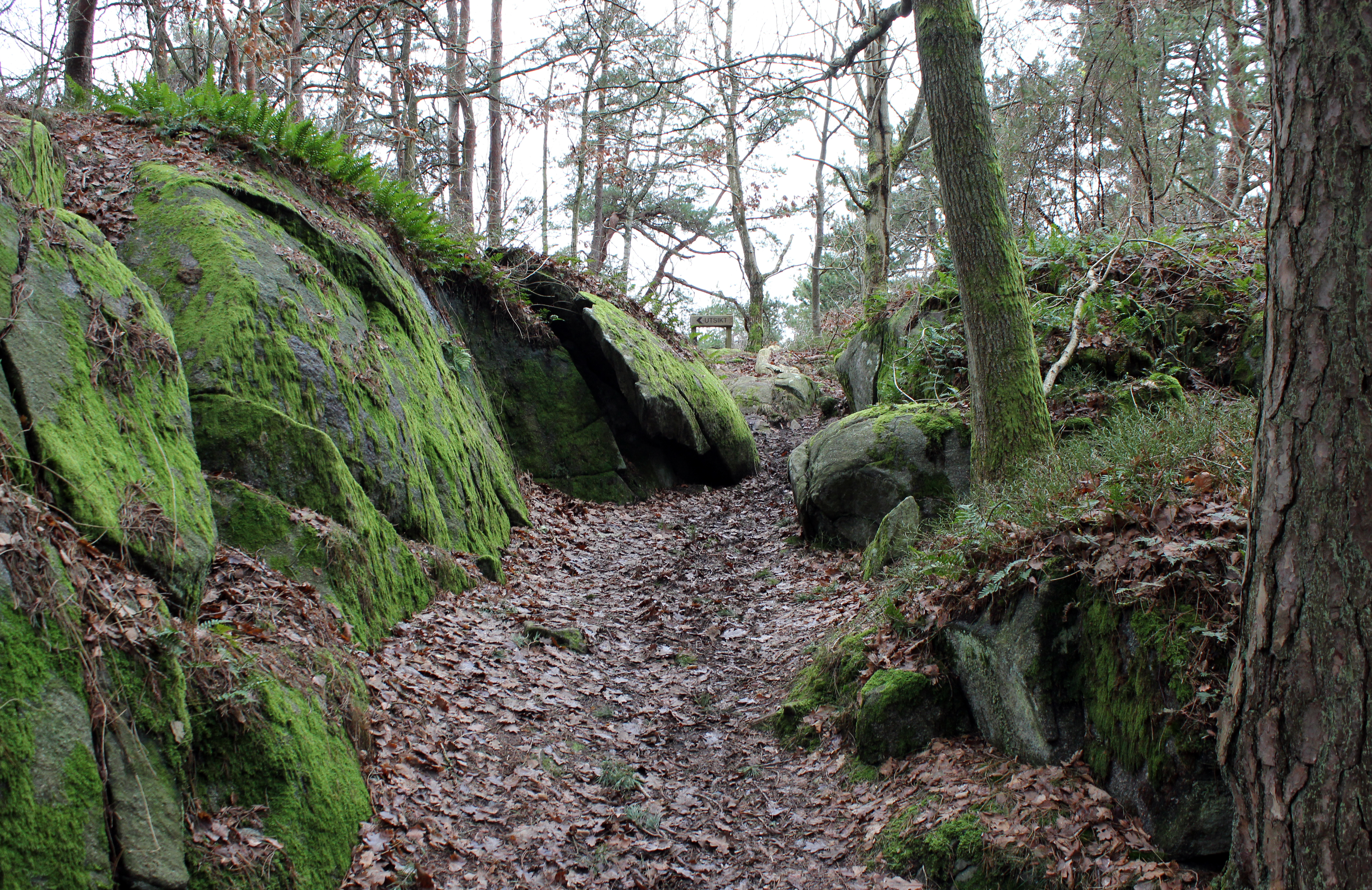 Mårtaskogen (Mårta forest) near Mårtagården, Onsala, Halland, Sweden.